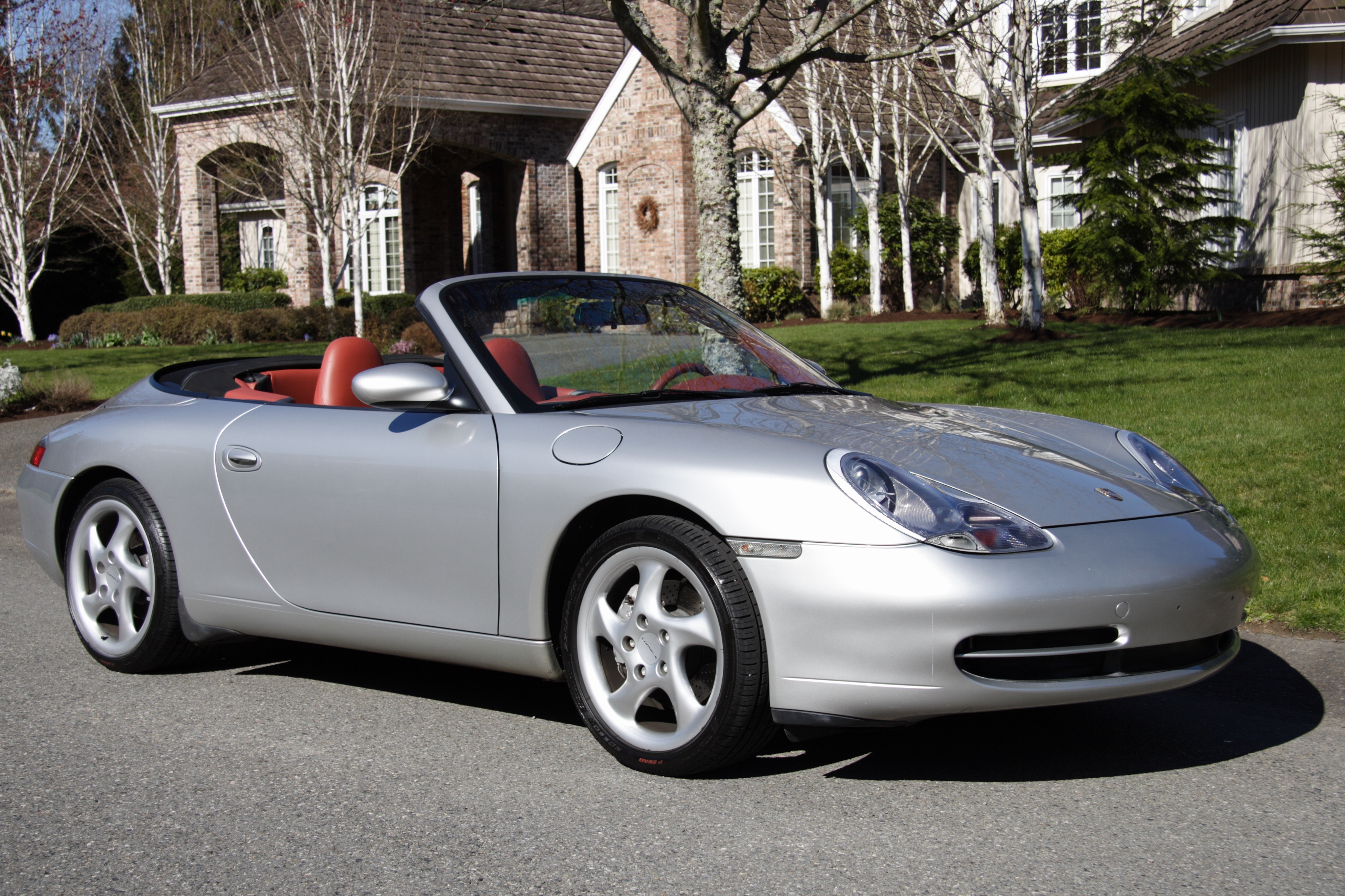 A 1999 Porsche 996 Carrera Cabriolet